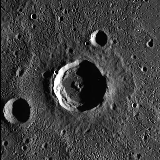 Yoshikawa crater on Mercury. Emission Angle: 0.2 Incidence Angle: 81.2 Latitude: 82.9 Longitude: 106.6 Phase Angle: 81.4